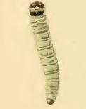 Stainton’s Natural History of the Tineina (1855–1873): Prays fraxinella ash leaflet mined by the young larva (1b); ash twigs beneath the bark of which the larva has burrowed (1b*)